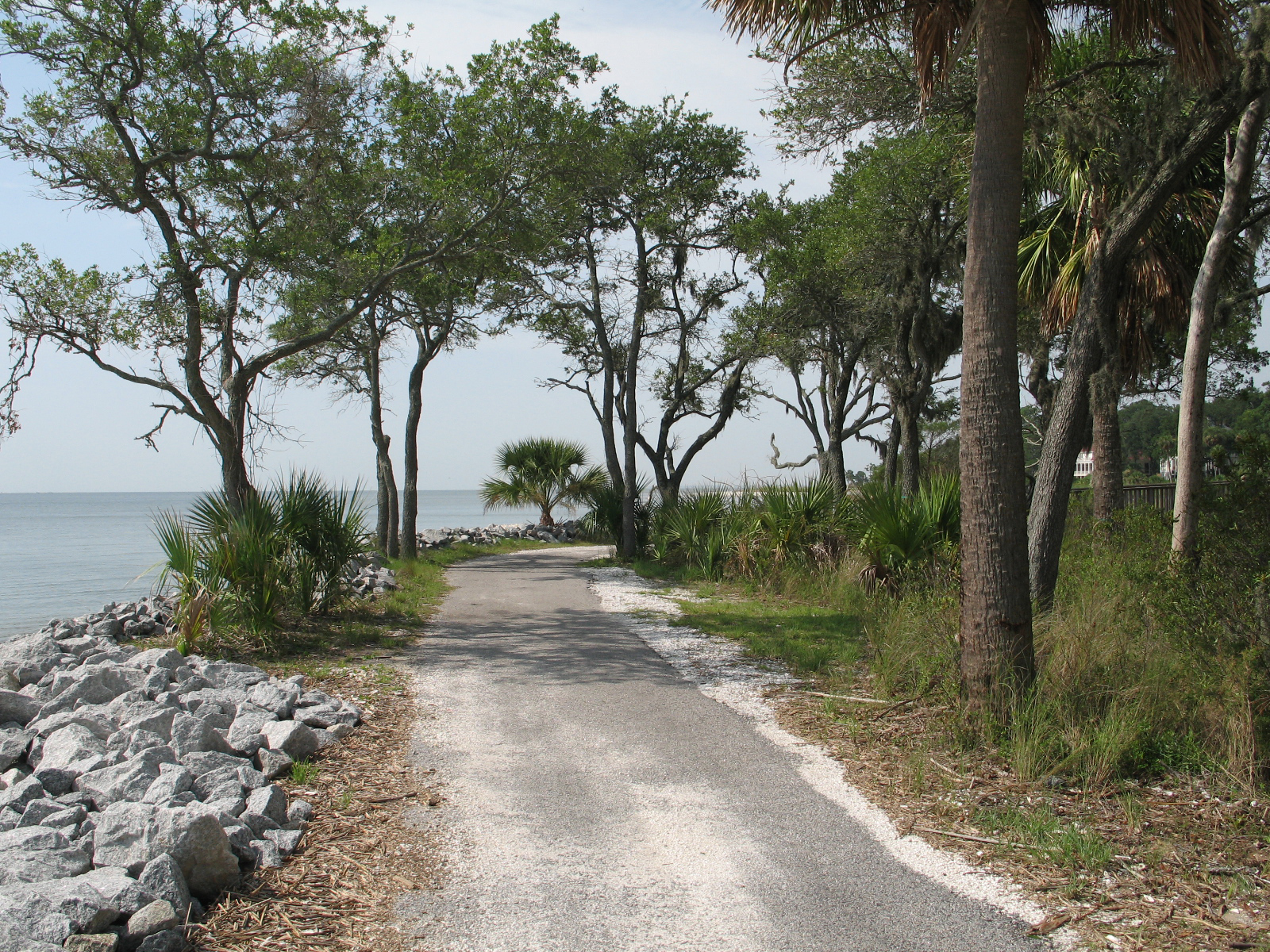 Ocean pathway on Daufuskie Island